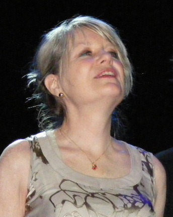 Tina Weymouth of Talking Heads at the Austin Music Awards during the South By Southwest music festival (SXSW), 2010